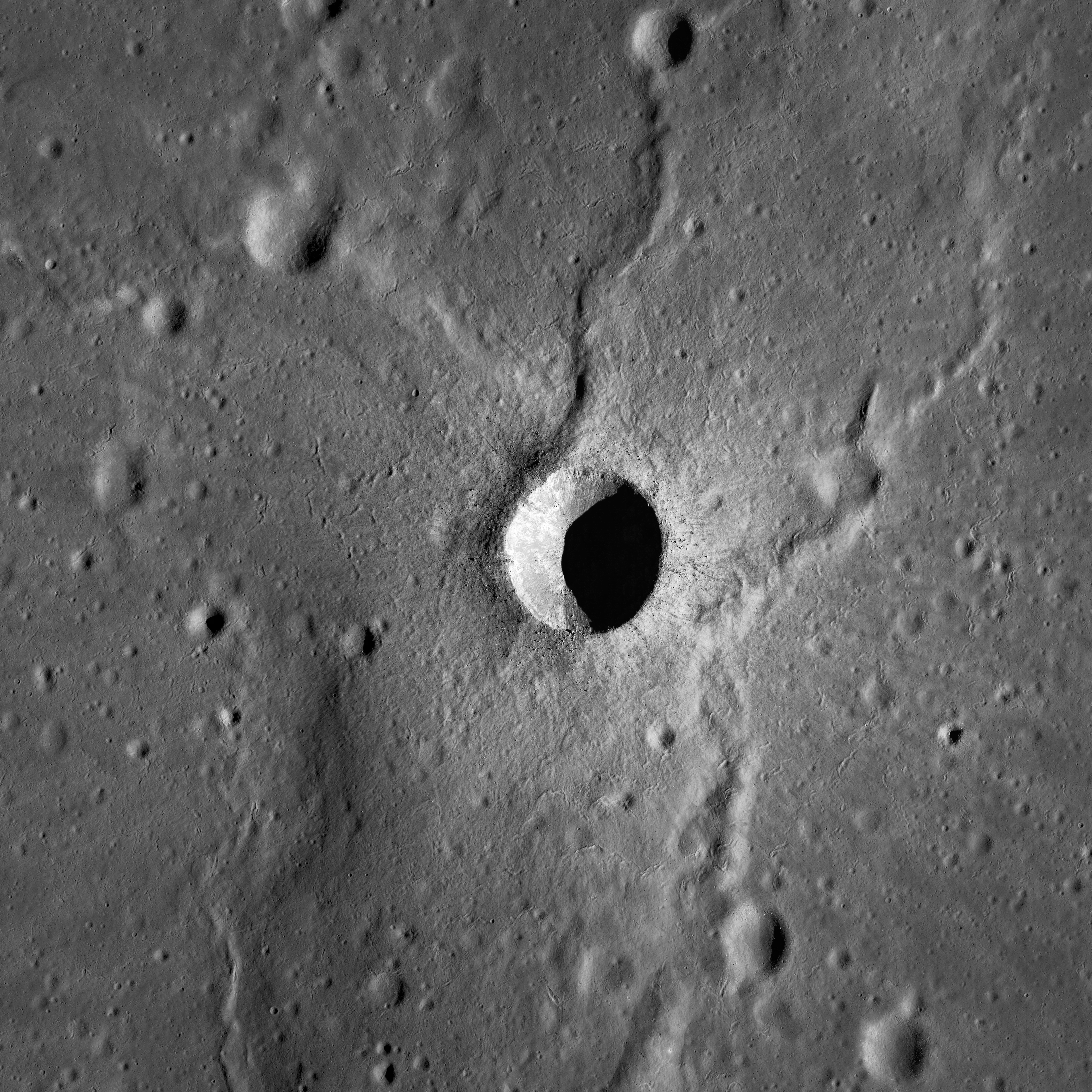 A "knot" on the Serpentine Ridge (a wrinkle ridge in Mare Serenitatis on the Moon) known under an unofficial now name Posidonius γ (Chu et al., 2012, p.80, Rükl, 2004, p.74-75). The crater on the "knot" (the biggest on the image; 2.2 km in diameter) has an official name Posidonius Y (map by IAU). Photo by Lunar Reconnaissance Orbiter, taken with Narrow Angle Camera (NAC) 17 May 2013 from altitude 136 km. Sun elevation is 20.4°. Width of the photo is 13.3 km, north is approximately up.